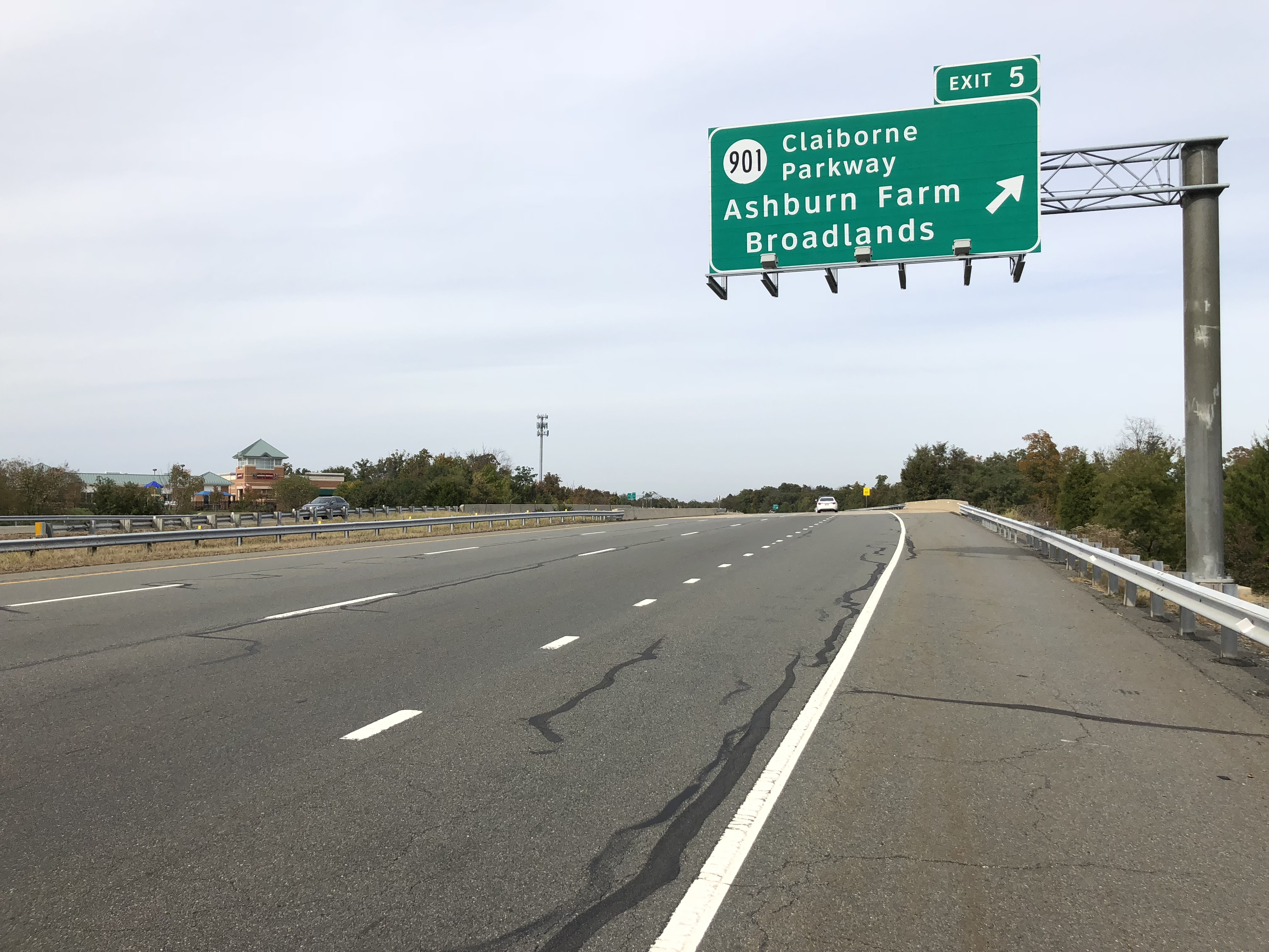 View west along Virginia State Route 267 (Dulles Greenway) at Exit 5 (Virginia State Route 901/Claiborne Parkway, Ashburn Farm, Broadlands) in Broadlands, Loudoun County, Virginia